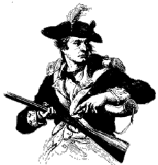 Clip art of minuteman. This was taken from a free clip art sight.